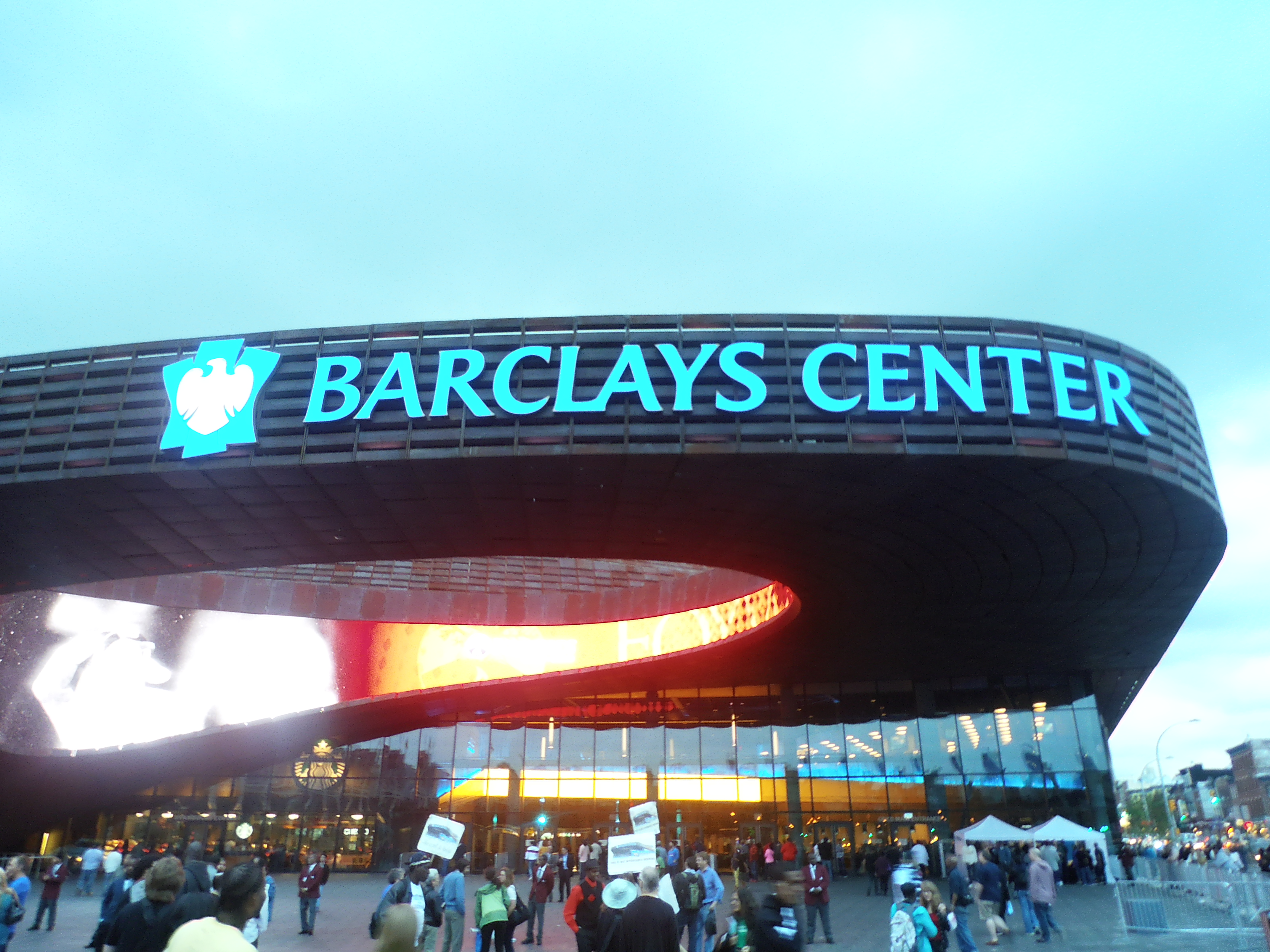 Main entrance of Barclays Center on September 29 2012